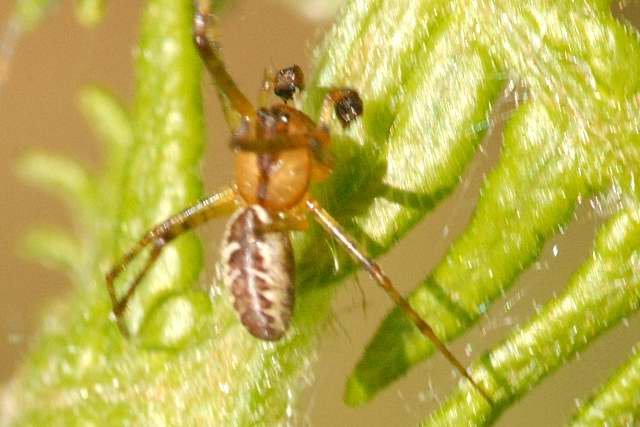 Pityohyphantes phrygianus from Commanster, Belgian High Ardennes .